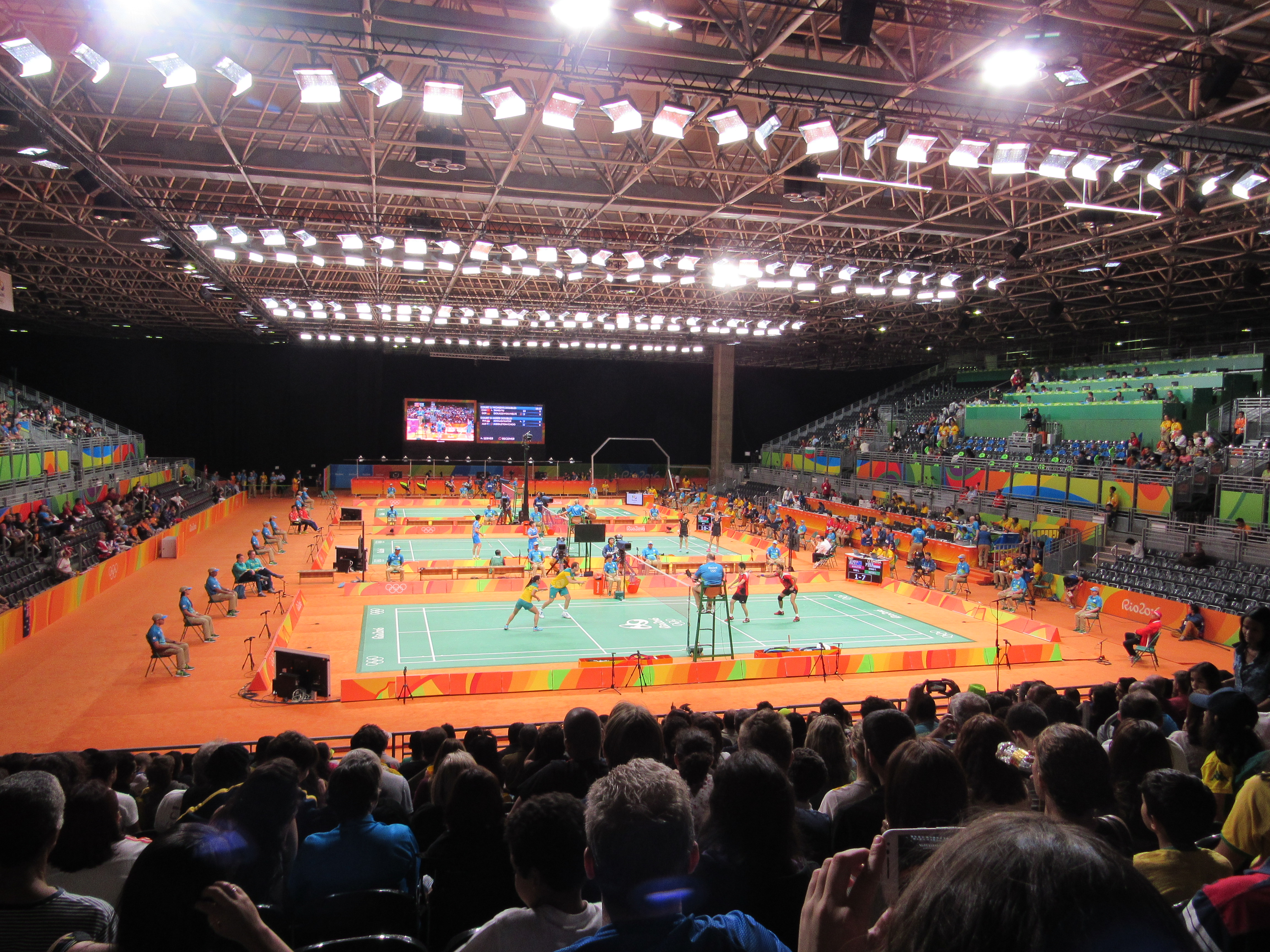 Badminton in Riocentro (Pavilhão 4)